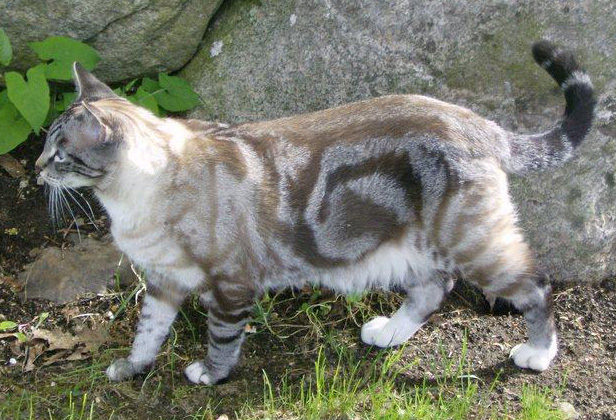 Grey and silver classic tabby cat.